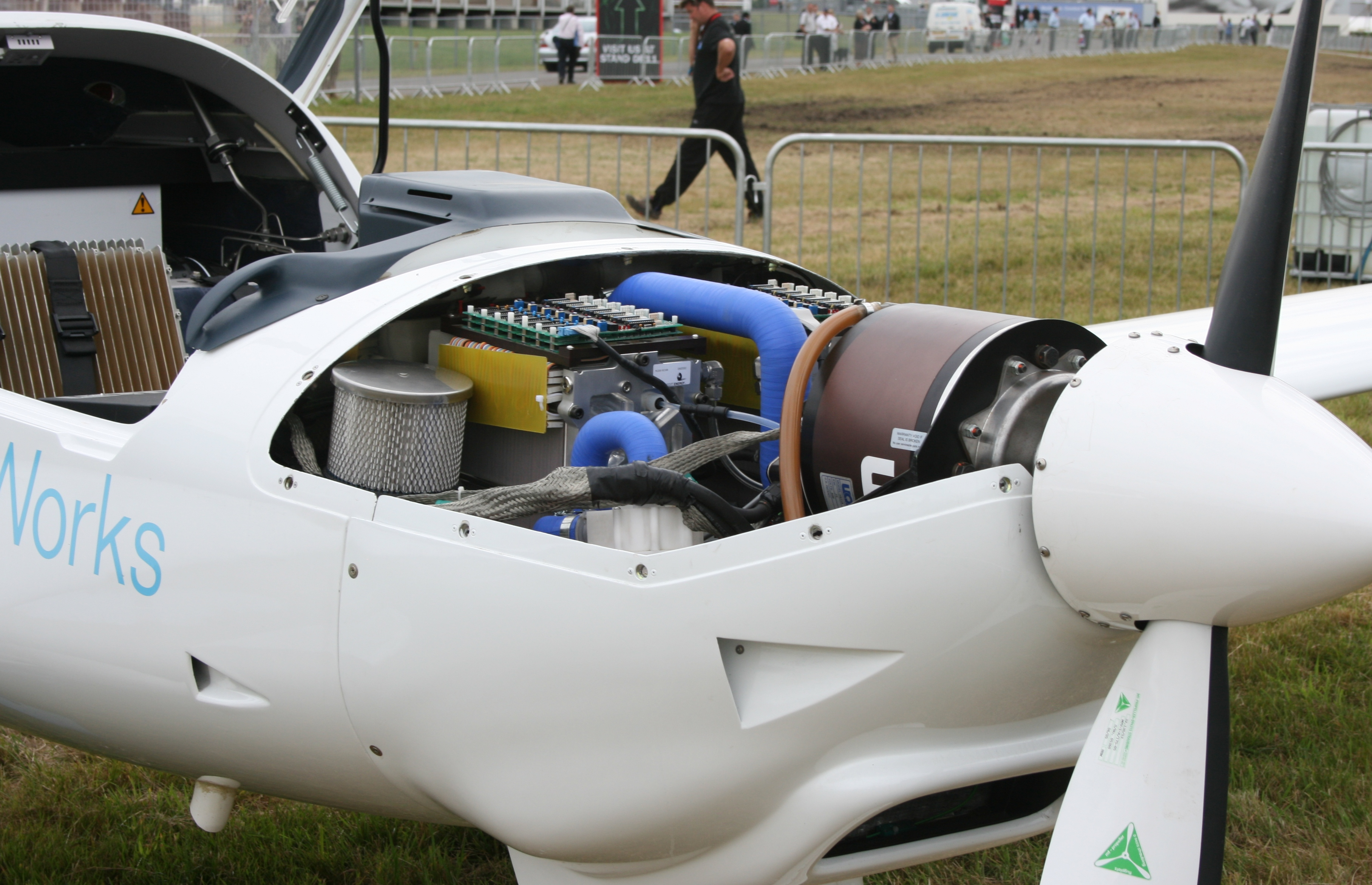 Boeing Fuel Cell Demonstrator (Diamond HK36 Super Dimona EC-003) on display at the 2008 Farnborough Airshow.